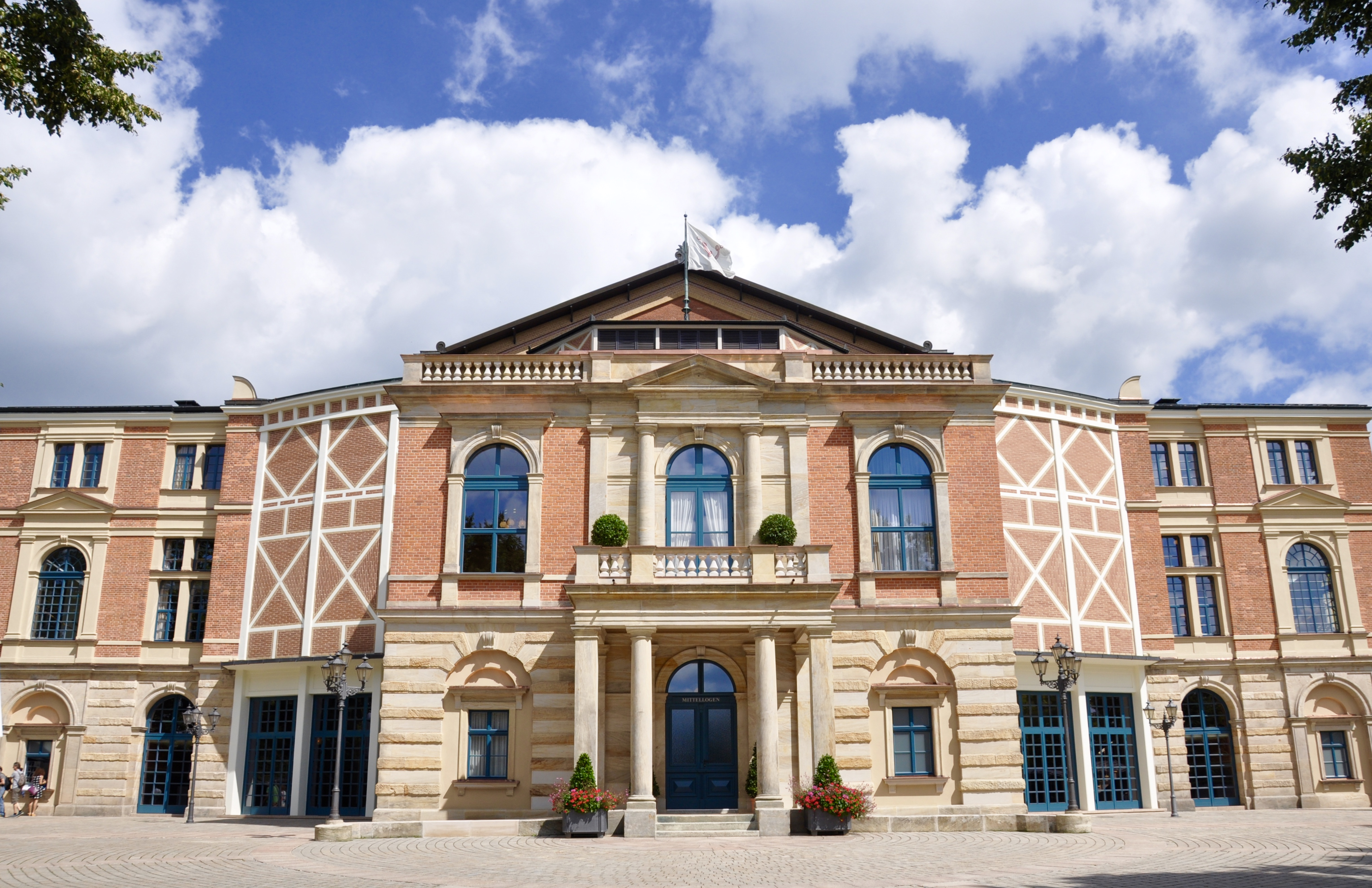 This is a photograph of an architectural monument.